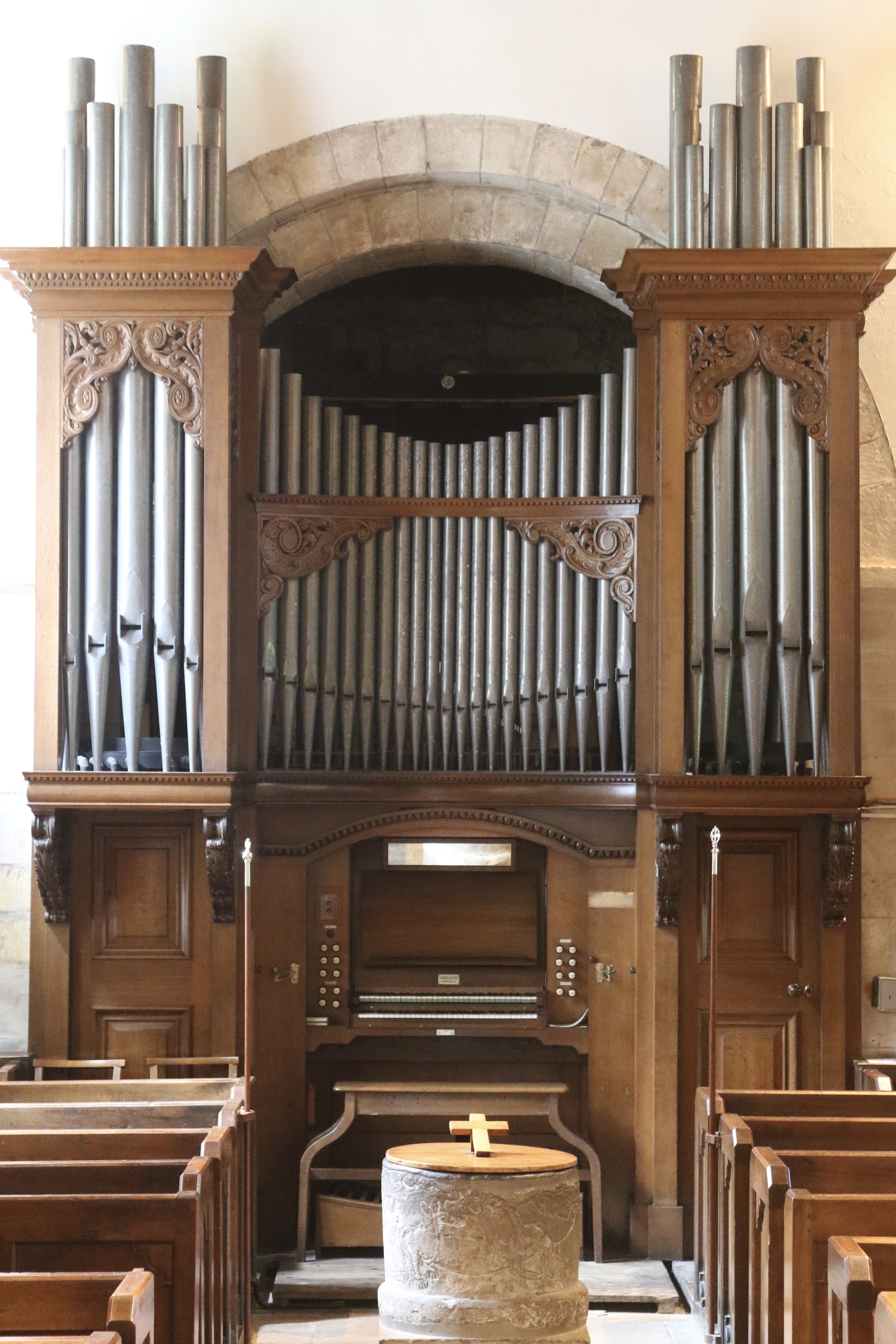 St Mary's Tissington